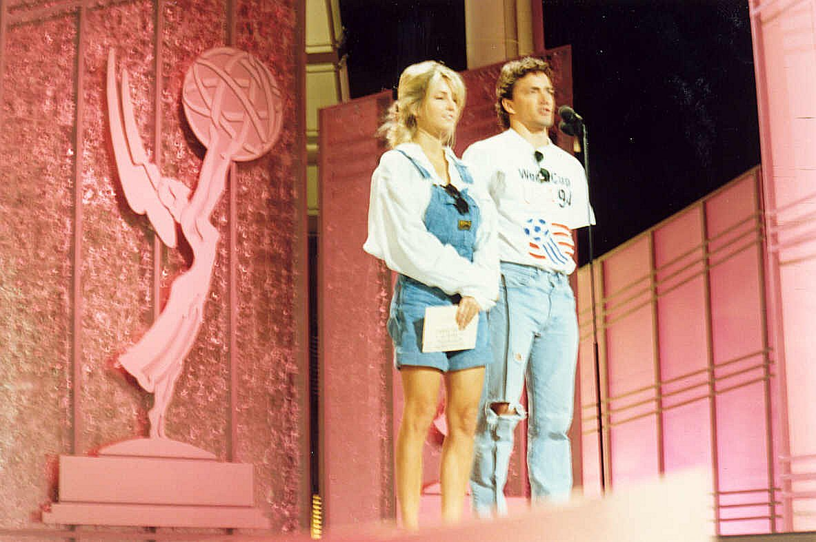 Heather Locklear and Andrew Shue on stage at the Emmy rehearsal 1993 - Permission granted to copy, publish, broadcast or post but please credit "photo by Alan Light" if you can